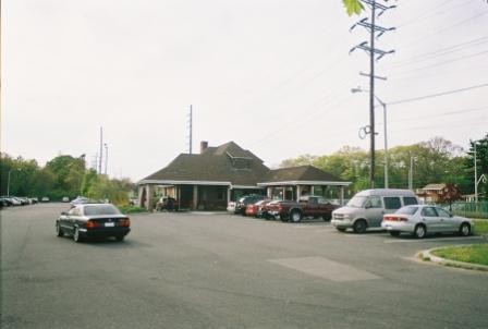 View of Oakdale (LIRR Station) from the parking lot entrance of Oakdale-Bohemia Road in Oakdale, New York